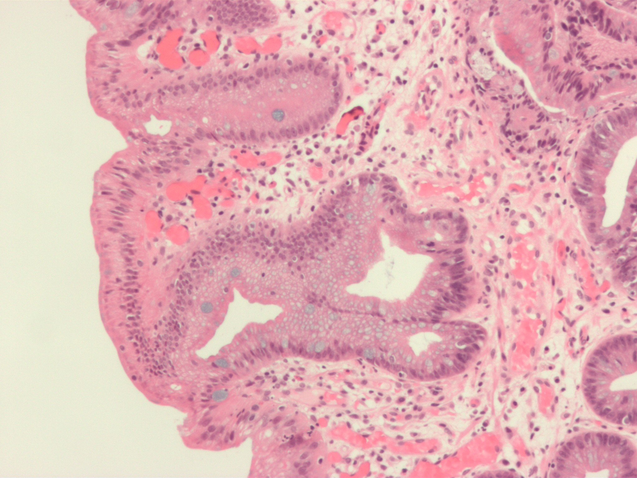 Micrograph of Barrett's esophagus. Alcian blue stain. The (simple columnar) metaplasic epithelium of Barrett's esophagus is characterized by goblet cell, which stain blue with alcian blue. Barrett's is associated with an increased risk of adenocarcinoma. High magnification version: Image:Barretts_esophagus_alcian_blue_high_mag.jpg